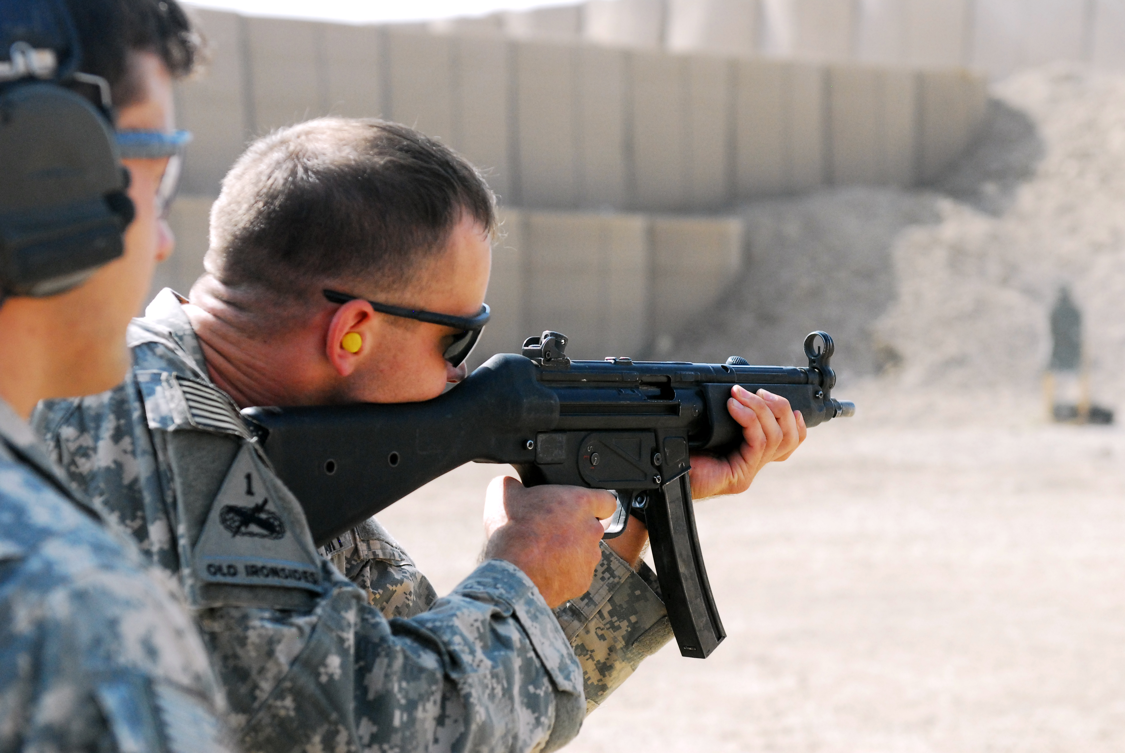 With the assistance of a U.S. Special Forces Soldier, Sgt. Robert Brown fires a MP5 submachine gun at a range on the Iraqi Special Operations Forces compound at Baghdad's Victory Base Complex Oct. 16. In 2006, Brown, a Moncks Center, S.C., native, lost his right leg below the knee in an attack. He returned to Iraq Oct. 11, as part of the Operation Proper Exit program, which allows wounded servicemembers to return to the places they were injured and to see the changes that have been made since they were last in theater.